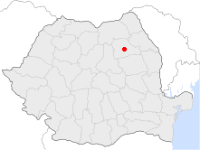 Location of Piatra Neamț in Romania.